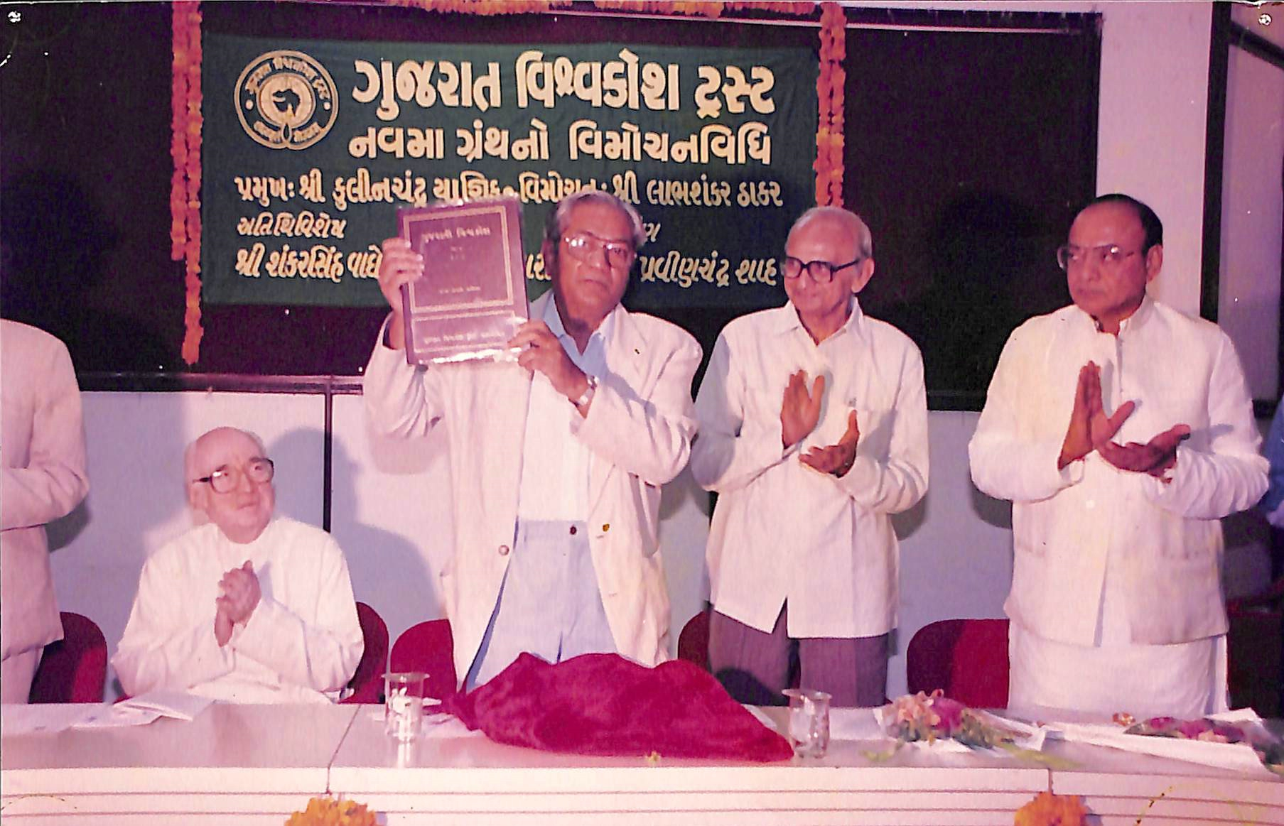 Gujarati Vishwakosh, Image 23